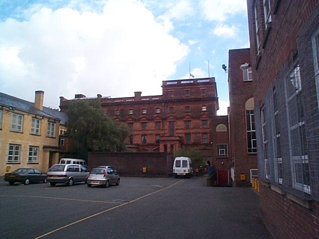 Photo of St. Bede's College, Main Building Taken by User:Pally01 September 2001. Released under the GFDL.